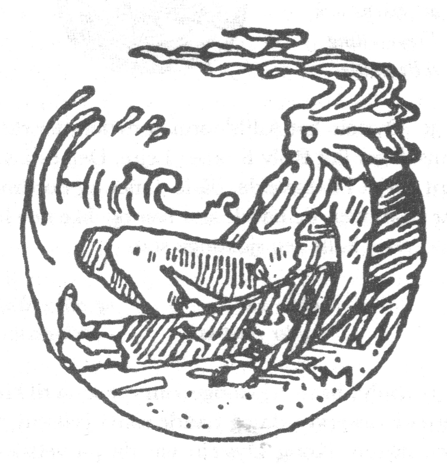 Gerhard Munthe: Illustration for Ynglingesaga. Snorre 1899-edition. 21